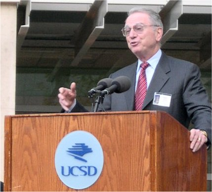 Dr. Irwin Jacobs, founder of Qualcomm speaking September 30, 2005 at the dedication of the Computer Science and Engineering (CSE) building and the "Bear" sculpture at University of California, San Diego